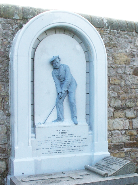 Grave memorial to young Tom Morris, St Andrews, Fife, Scotland